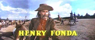 Cropped screenshot of Henry Fonda from the trailer for the film How the West Was Won